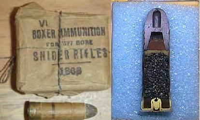 Left: Existing Boxer Patron 10rd package mark as year 1868 & "Boxer Ammunition". Right: Cutaway view of Boxer Patron.